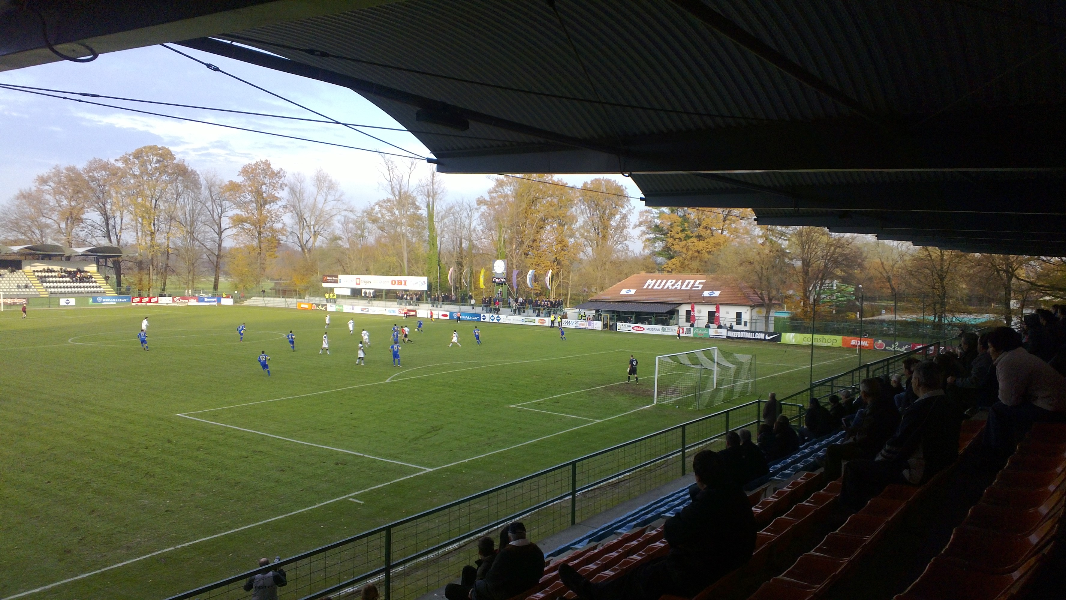 Mura 05 playing against Domžale in a Slovenian PrvaLiga match during the 2012/13 season (18th round).